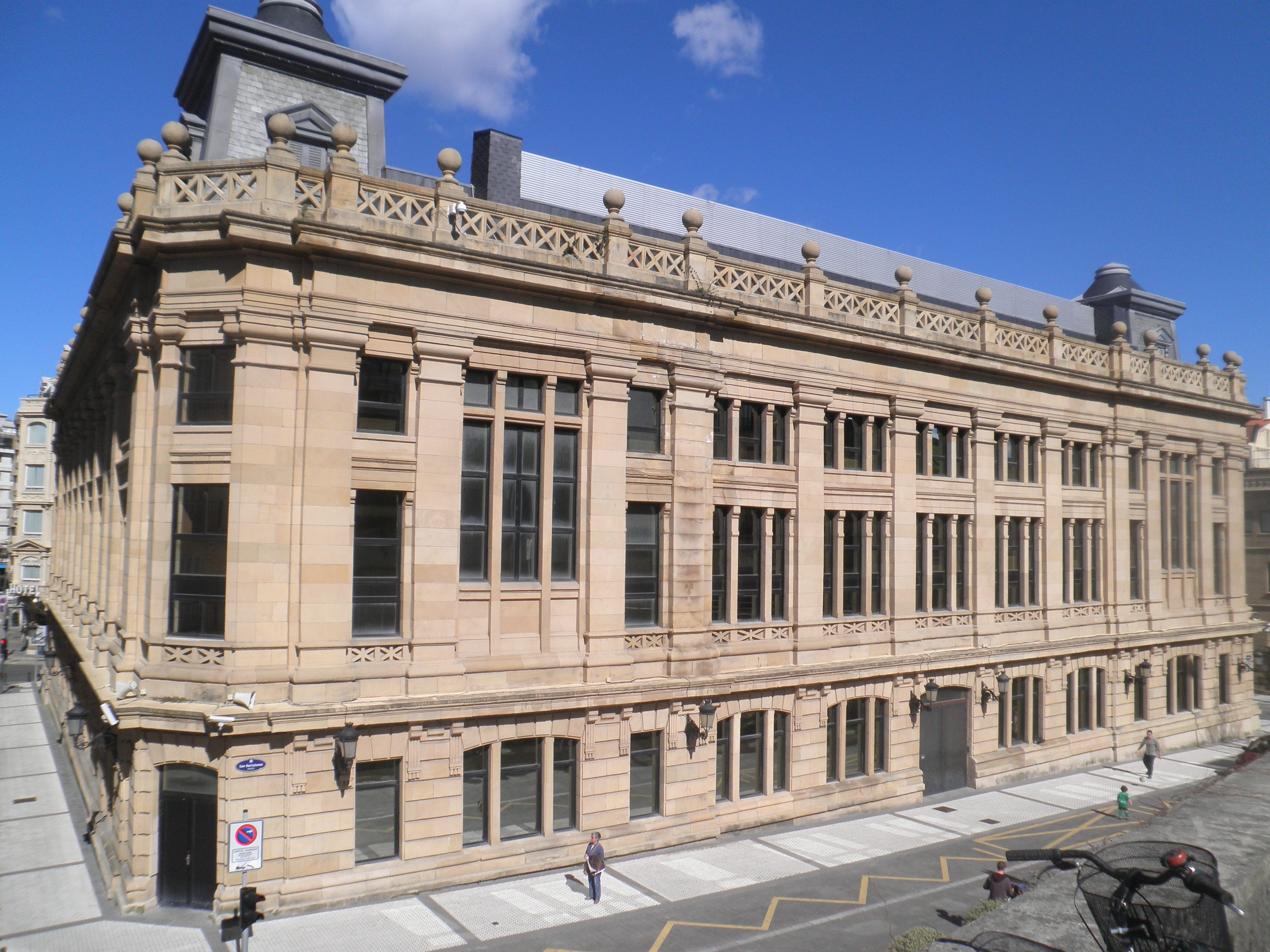 Justice court palace in San Martin street, Donostia